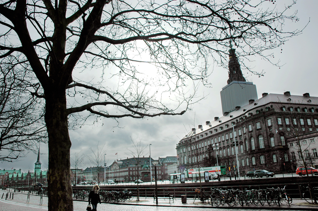 Christiansborg Palace in Copenhagen